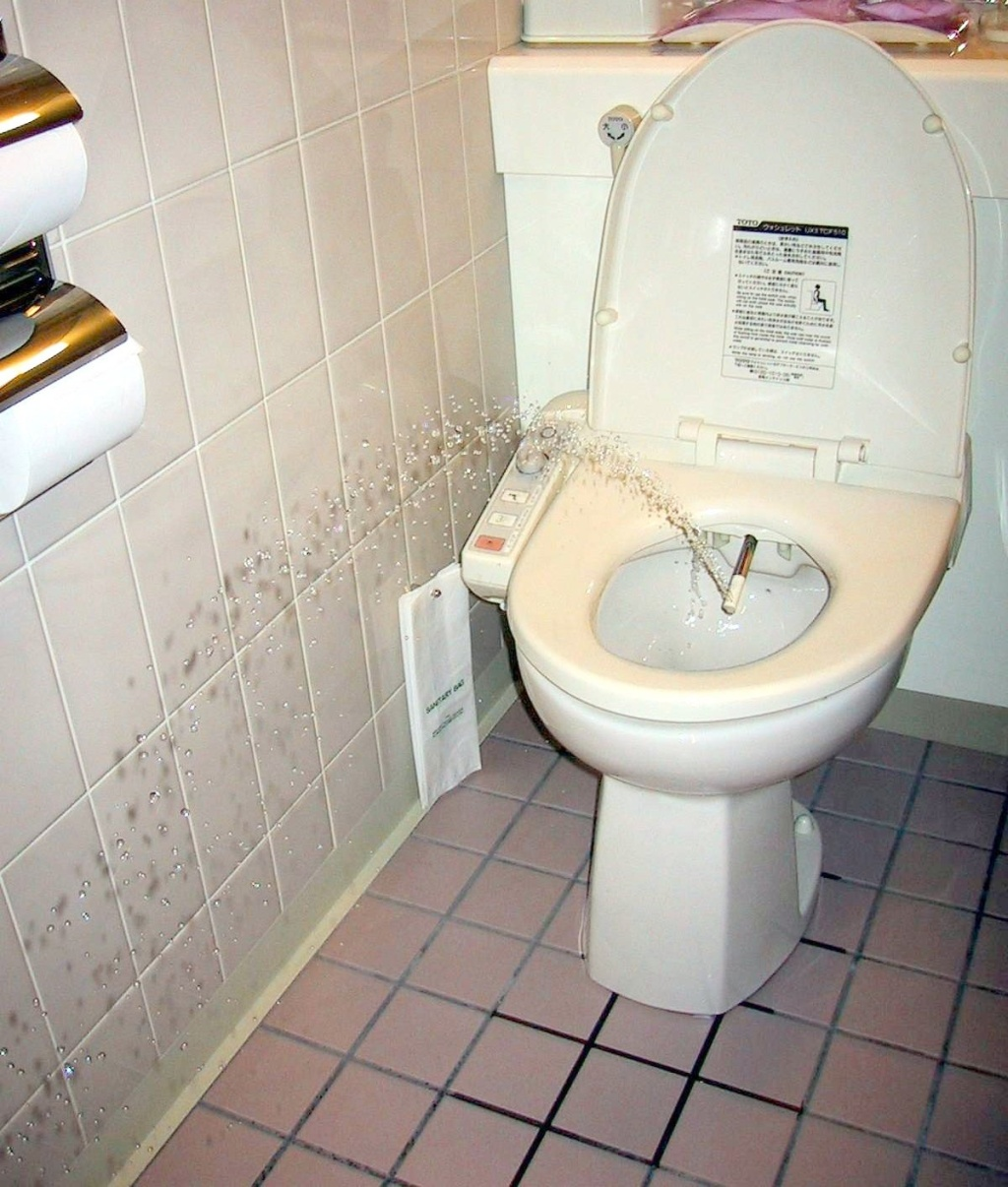 Bidet of a Japanese toilet in operation. The toilet is located in the Asahikawa Grand Hotel in Asahikawa, Japan. For the related control panel see JapaneseToiletControlPanel.jpg for details. The toilet has a pressure sensor in the seat and stops operating within a second if the pressure is taken off, so this was a tricky shot (pressing down the seat base by hand and removing the hand just in time for the picture. And, boy did I make a mess on the floor until I figured out to put the trashcan underneath). The picture shows the water jet for cleaning the vulva, with the pressure set to medium. The same nozzle uses different openings at a higher pressure (with the same setting of the pressure control) for cleaning the anus. For flushing of the toilet the handle to the left behind the lid is used. The Kanji 大 (ookii, meaning big) refers to a large flush after rotating the handle to the left for large size waste (大便, daiben, meaning feces). The kanji 小 (chiisai, meaning small) refers to a small flush after rotating the handle to the right for small size waste (小便. shonben or shouben, meaning urine).